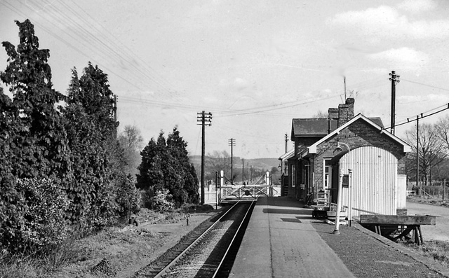 Bledlow Station. View eastward, towards Princes Risborough and London; ex-GWR Princes Risborough - Thame - Oxford line. Station closed with passenger traffic on line 7/1/63, but line remained open (for oil traffic to Thame) until 17/4/91.